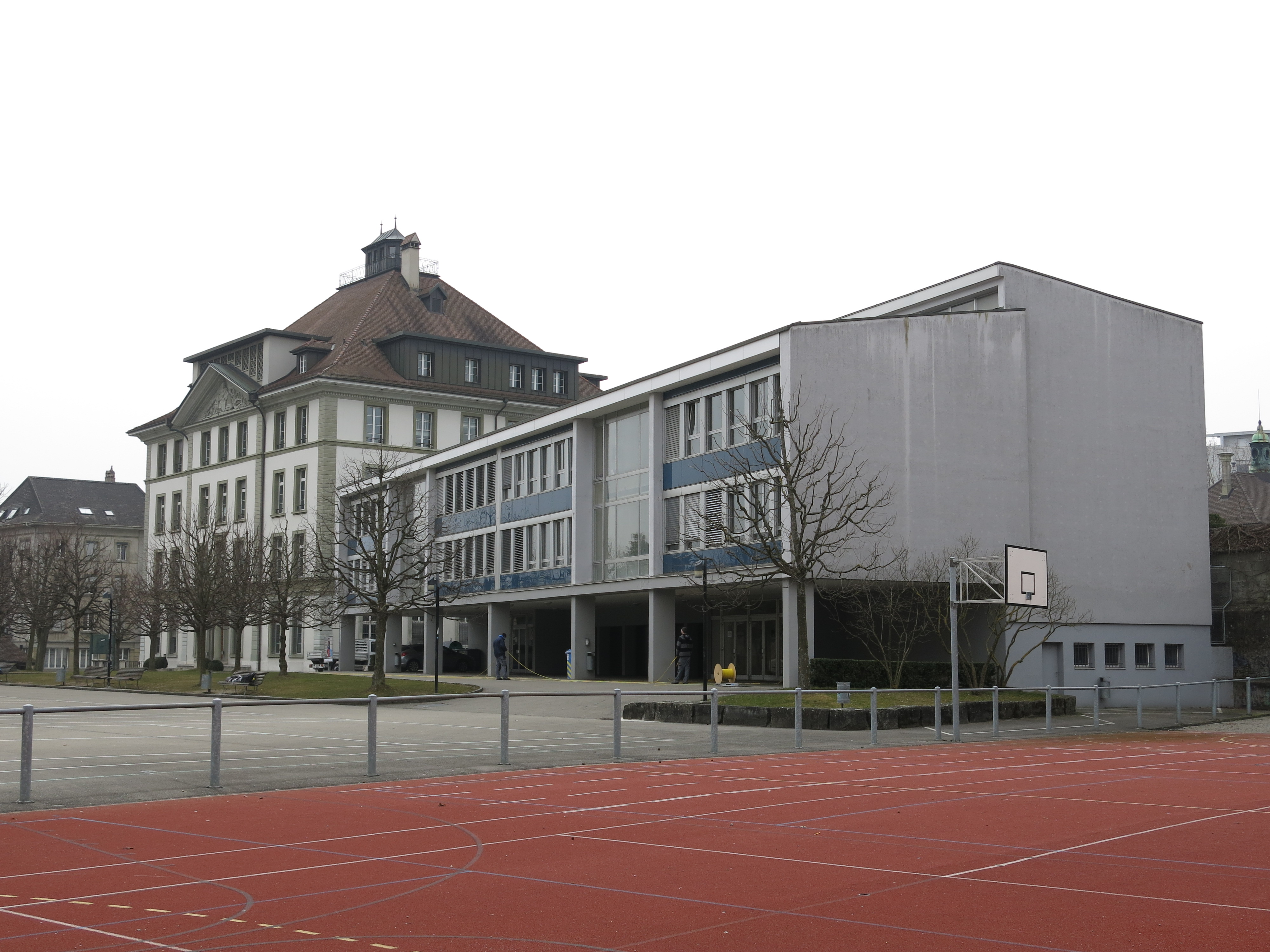 Fribourg, Switzerland